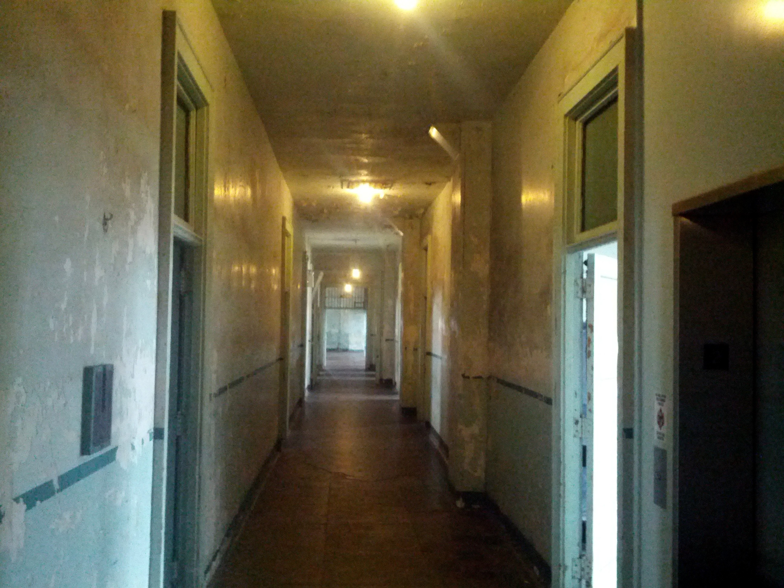 Alcatraz hospital corridor